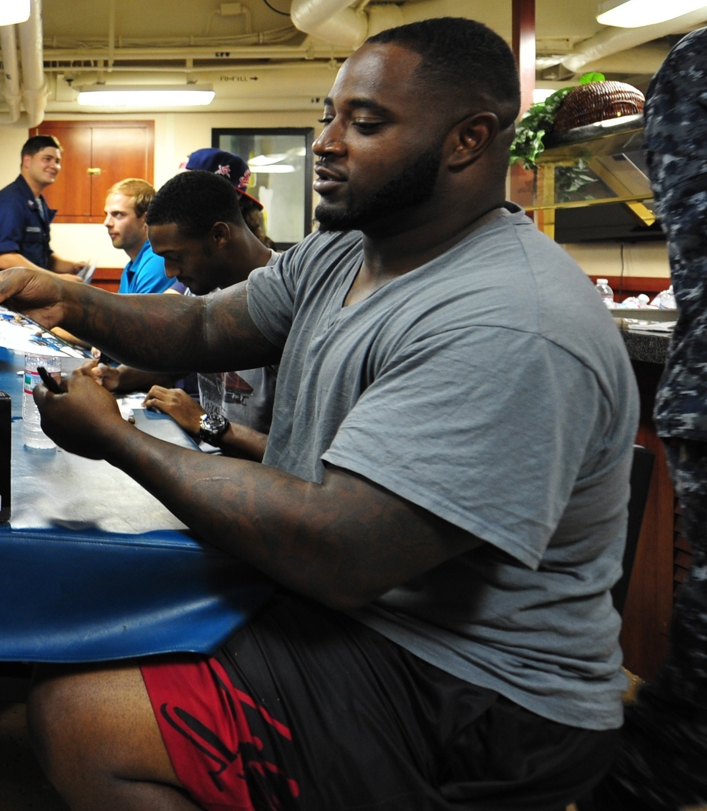 C.J. Mosley, defensive lineman for the Jacksonville Jaguars, autographs team memorabilia for sailors aboard the Ticonderoga-class guided-missile cruiser USS Philippine Sea (CG 58). Players and cheerleaders for the Jacksonville Jaguars visited sailors to show their appreciation to the military and pass out free tickets to an upcoming game. (U.S. Navy photo by Mass Communication Specialist 2nd Class Marcus L. Stanley/Released)